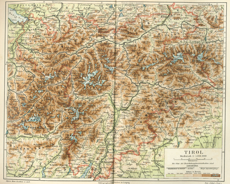 This is page 720 of 1044, in Volume 15 of the German illustrated encyclopedia Meyers Konversationslexikon, 4th edition (1885-1890), fraktur font.